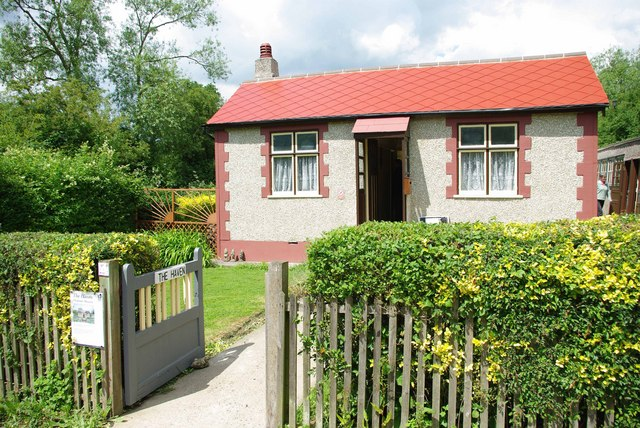 The Haven. The Haven is the last survivor of the Dunton Plotland dwellings that were built between the two world wars. Plots of land were sold cheaply to families mainly from East London for holiday homes. The deeds did not permit occupancy for a full twelve months of the year. This was ignored during WW2, after the war the council decided that it would cost far to much to bring the infrastructure up to modern standards so people were moved into the new town of Basildon. The last few houses being compulsorily purchased. The area was designated as a recreational area. To find out more 30 years ago the area was handed to the Essex Wildlife Trust The haven is now preserved as it was in the 1940's see 1375119